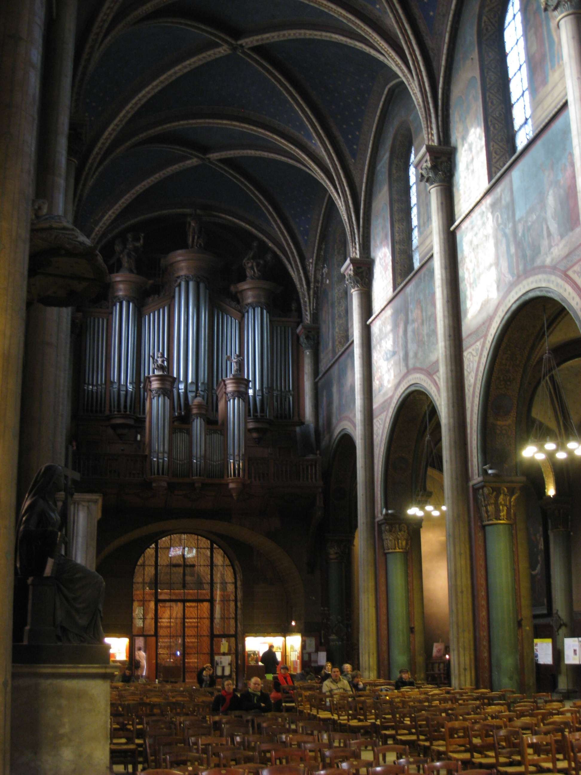 Abbaye de Saint-German-des-Prés, Paris, France - interior view with organ.